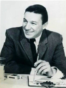 Publicity photo of journalist Mike Wallace for the television program Mike Wallace Interviews.